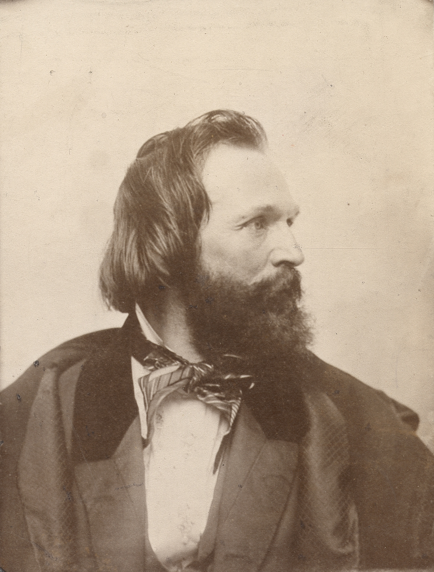 William Sidney Mount, American painter. Identification on verso (handwritten): Wm. S. Mount (an ambrotype) the last picture he had taken. M. Seabury, Stoney Brook, Long Island.